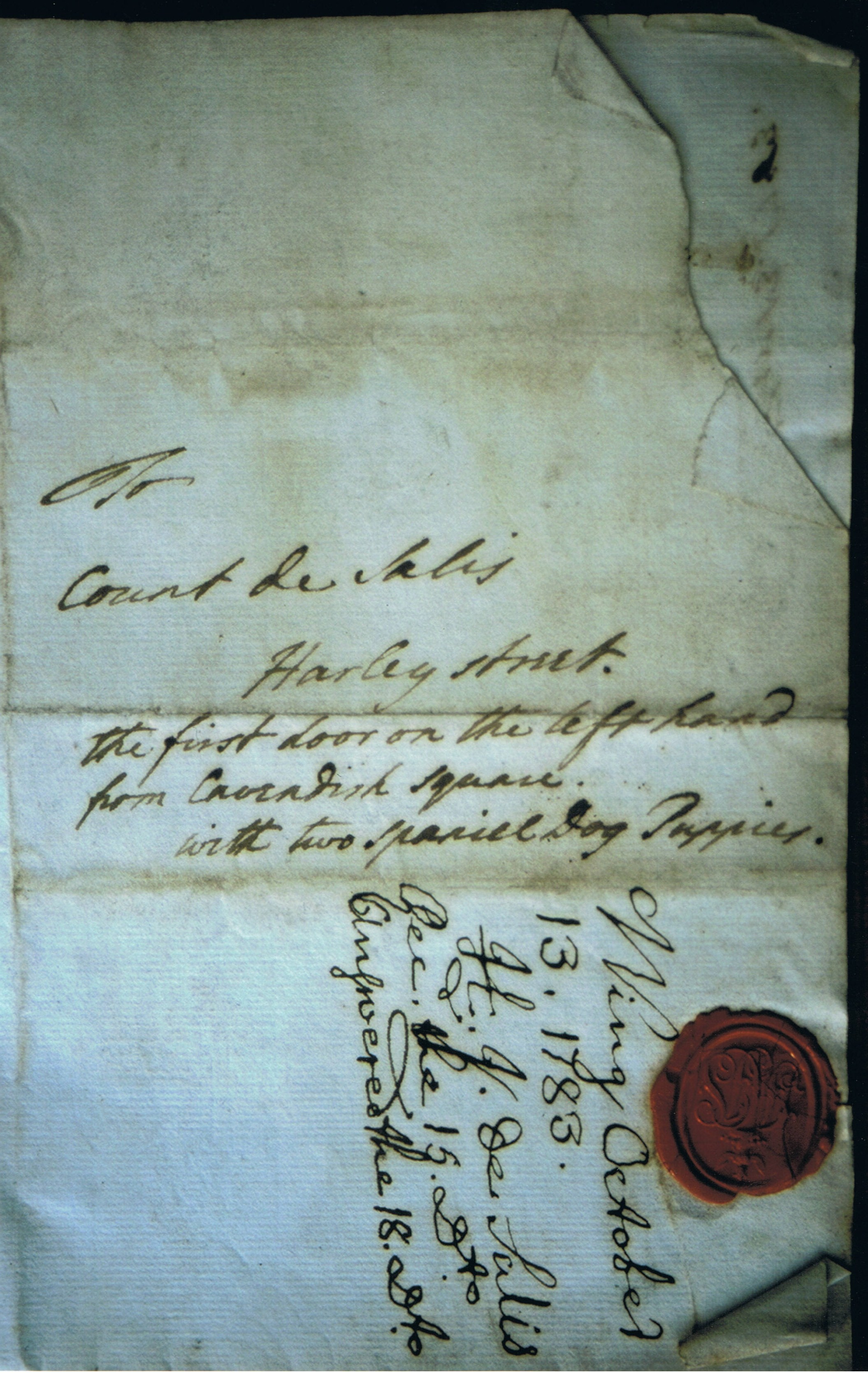 cover of letter of 1783 (photo: R. de Salis, April 2006), showing Harley Street.Rodolph 11:12, 26 October 2007 (UTC). Outside of a letter from Henry to his father, with his father's inscriptions of receit